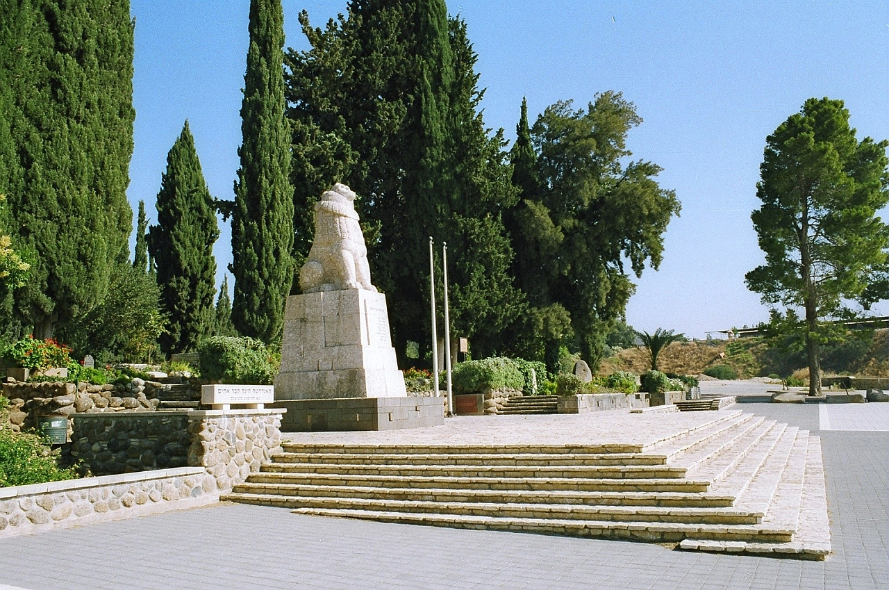 Kfar Giladi's Roaring Lion memorial to the fallen of Tel Hai